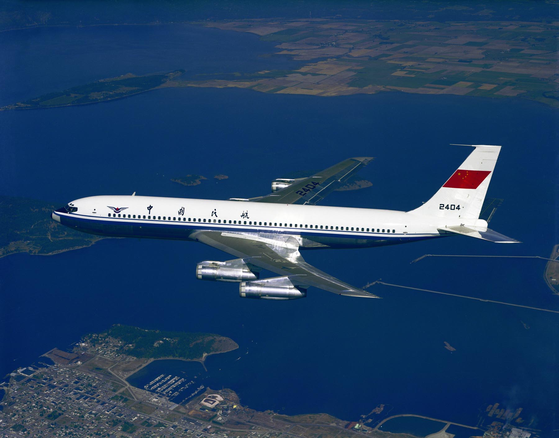 CAAC Boeing 707 over Anacortes, Washington, U.S.